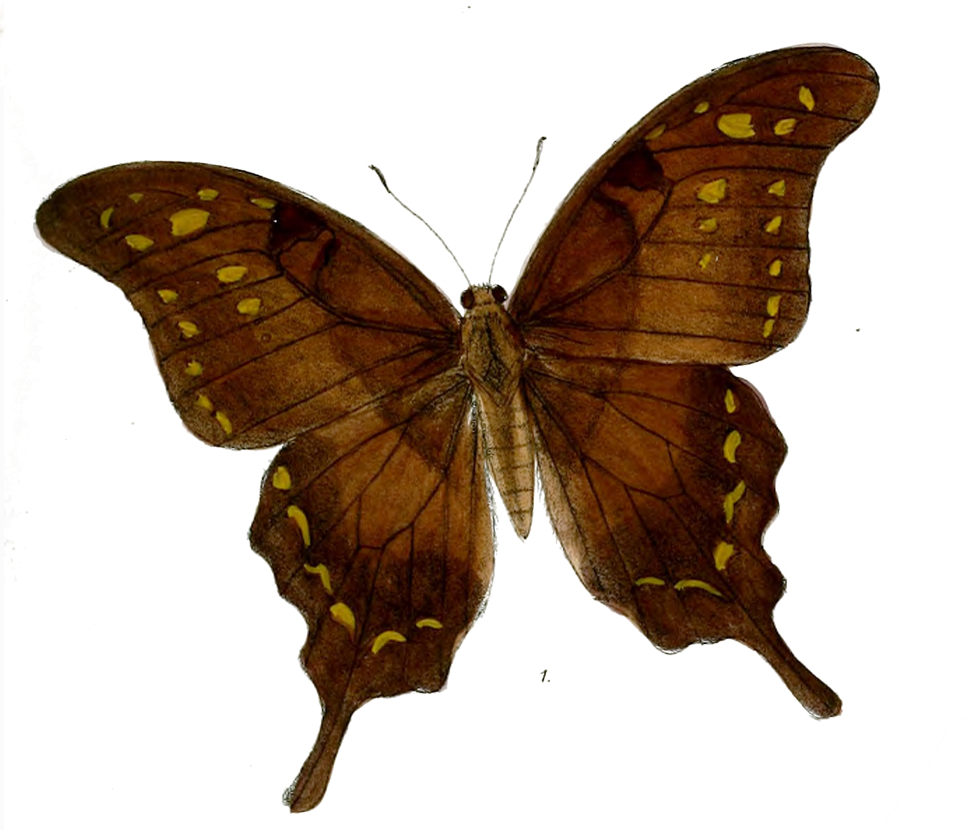 Dabas gyas = Meandrusa sciron (male)